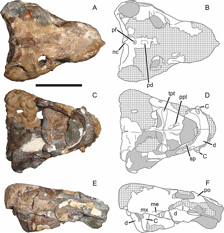 Holotype (RC 57) of Clelandina rubidgei Broom, 1948 in (A) dorsal, (C) ventral, and (E) left lateral view (with (B) (D) and (F) interpretive drawings). Abbreviations: C, upper canine; d, dentary; j, jugal; me, maxillary emargination; nc, nuchal crest; pd, pre-parietal depression; pf, pineal foramen; po, postorbital; ppl, palatal boss of palatine; sp, splenial; tpt, transverse process of pterygoid. Gray indicates matrix, hatching indicates plaster. Scale bar equals 10 cm.